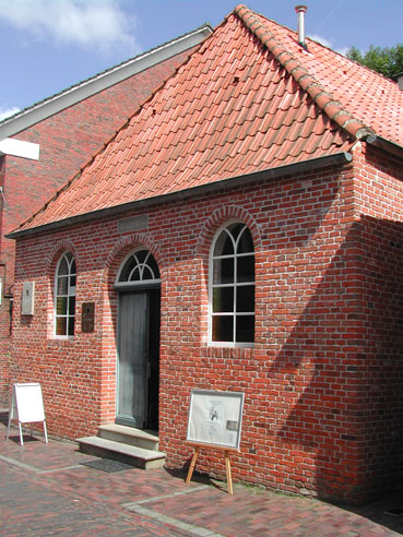 former synagogue in Dornum